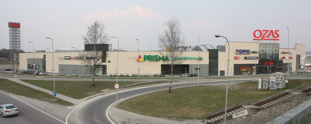 Shopping mall "Ozas" in Vilnius.